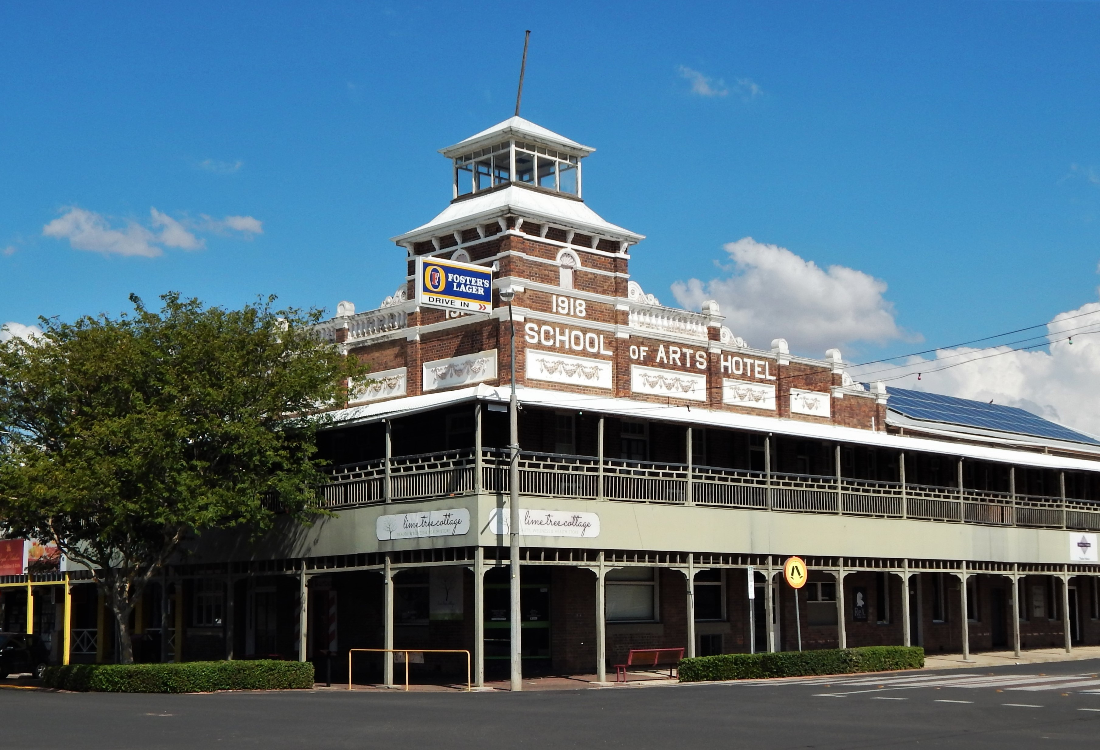 The School of Arts Hotel in Roma, Queensland